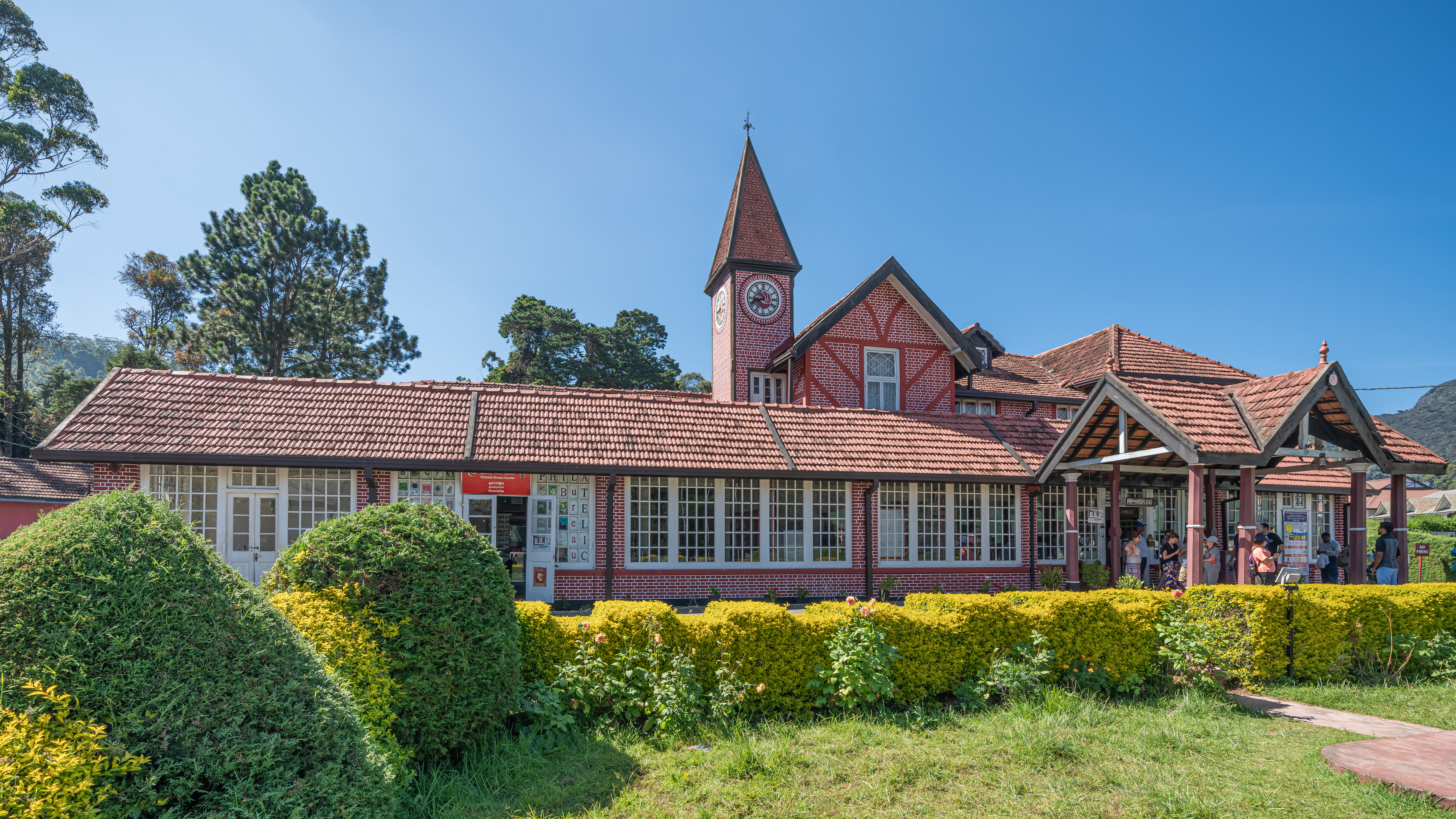 Old post office in Nuwara Eliya, Sri Lanka